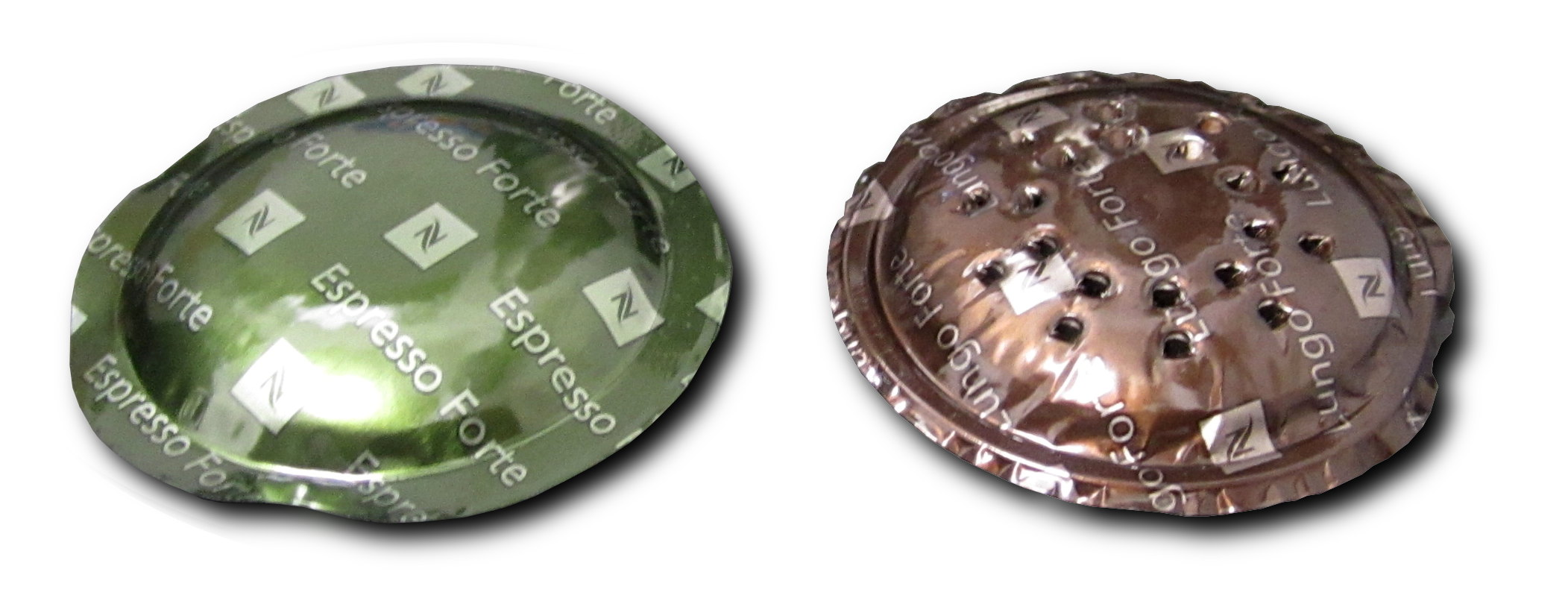 Nespresso-Professional Coffee-Capsules of aluminium coated plastic film: left one is new, right one is used. Diameter: rd. 40 mm